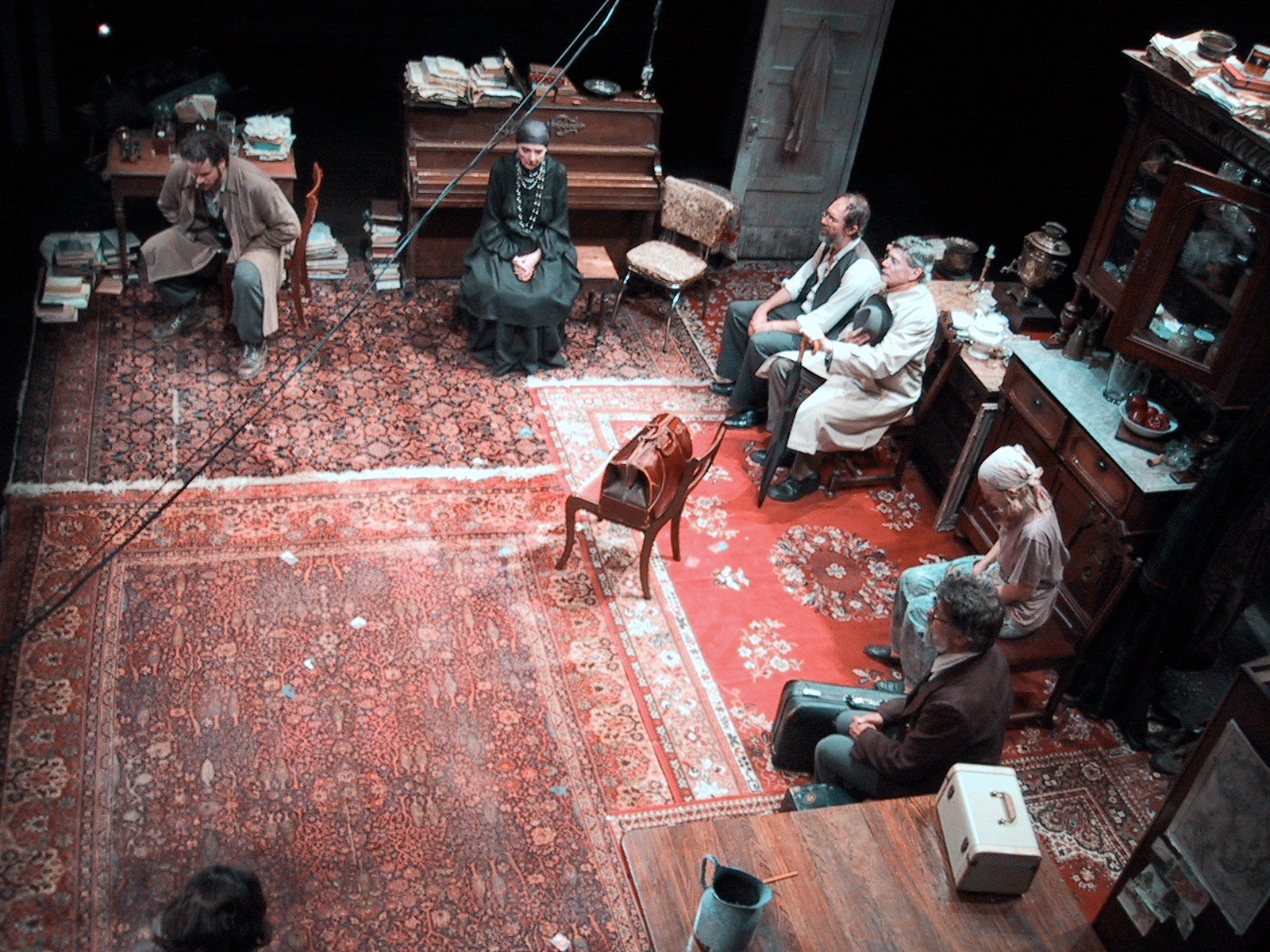 Uncle Vanya (Soulpepper Theatre Company, 2001, Toronto) Photo by Michael Levine